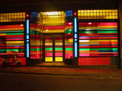 Intervención edilicia